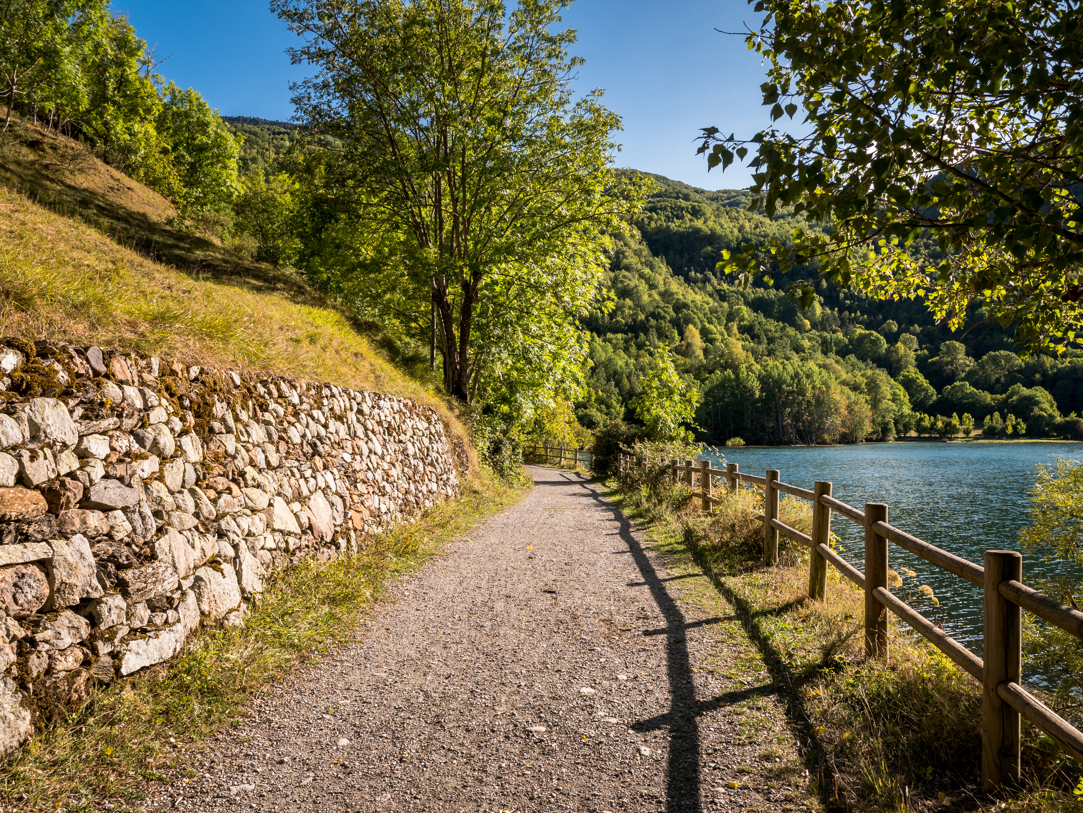 Footpath at the Linsoles Reservoir (aka Eriste Reservoir). Benasque Valley, Ribagorza, Huesca, Aragon, Spain